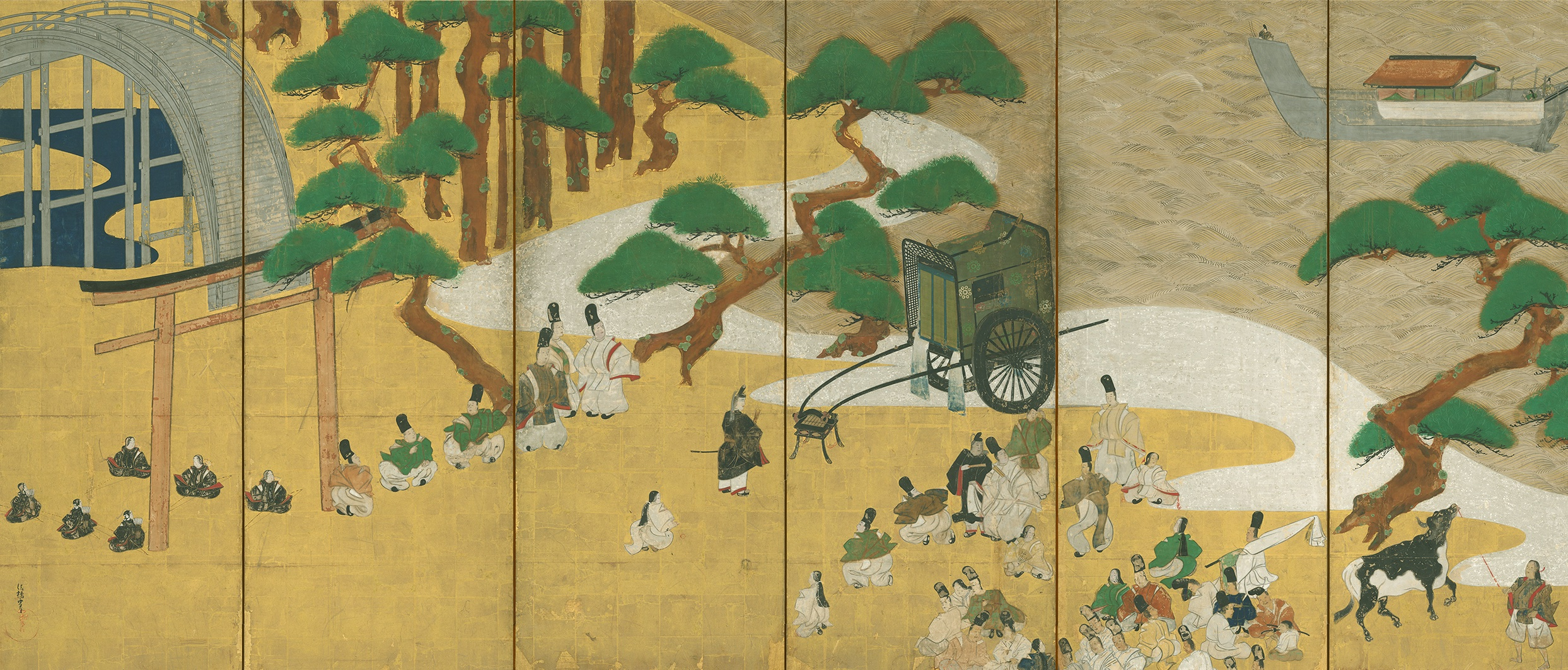 Painting of the chapter Miotsukushi from The Tale of Genji (紙本金地著色源氏物語澪標図, shihonkinjichoshoku genji monogatari miotsukushi zu). One of two six-section folding screens (byōbu). Ink and color on paper with gold leaf background. The screen has been designated as National Treasure of Japan in the category paintings.